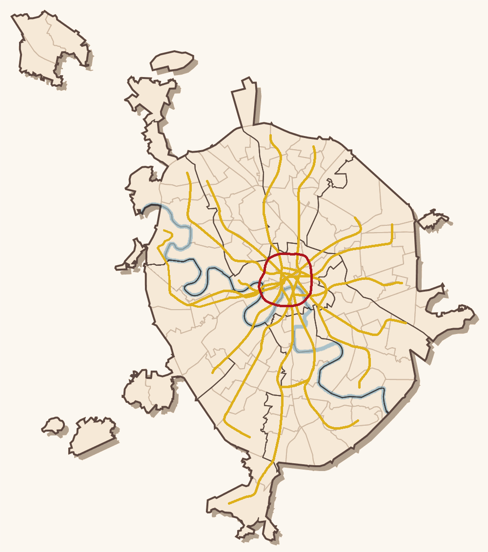 Map of Koltsevaya Line of Moscow Metro on Moscow map